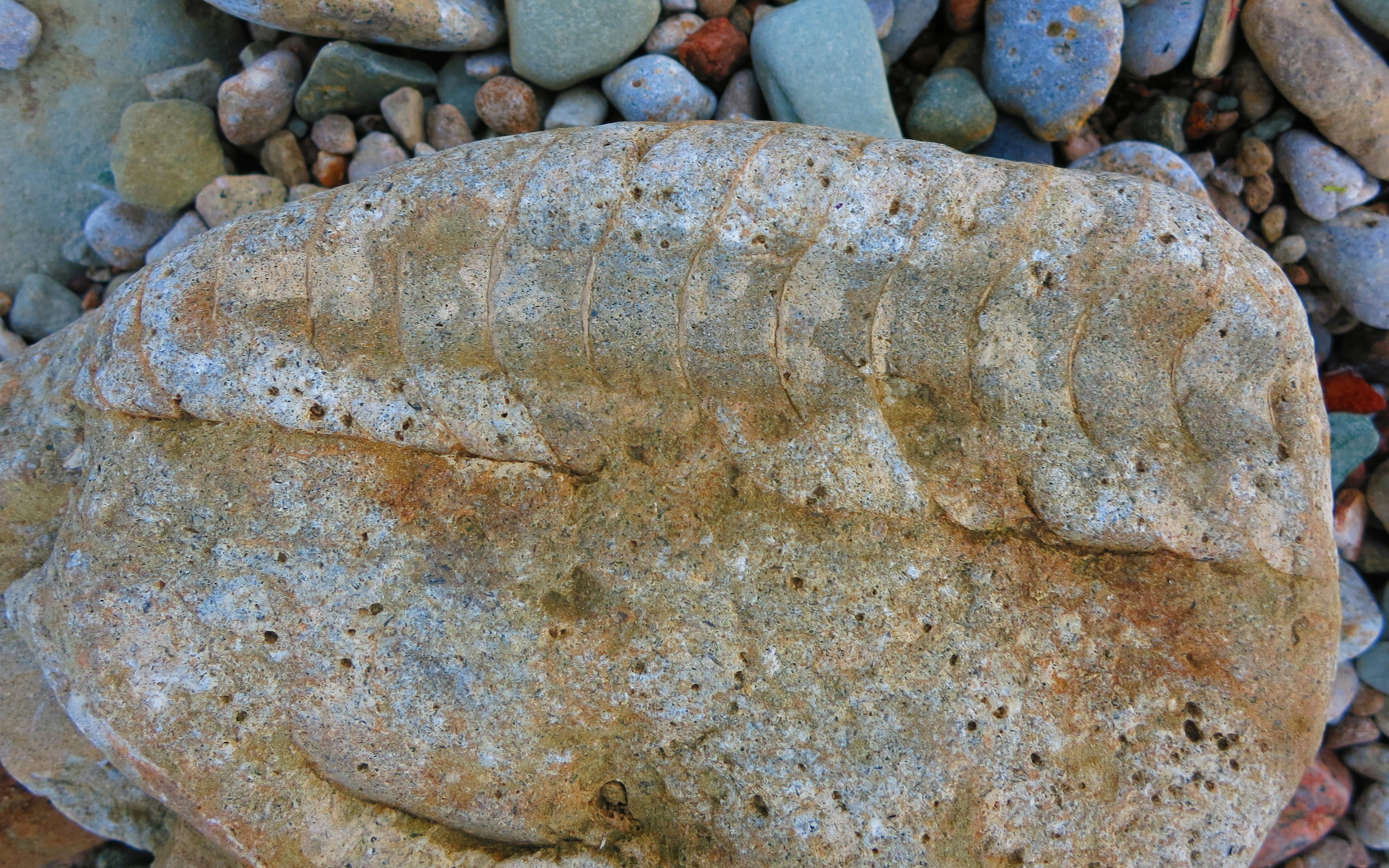 Fossil fragment on beach of Gulf of Finland in Voka (Ida-Viru County, Estonia)